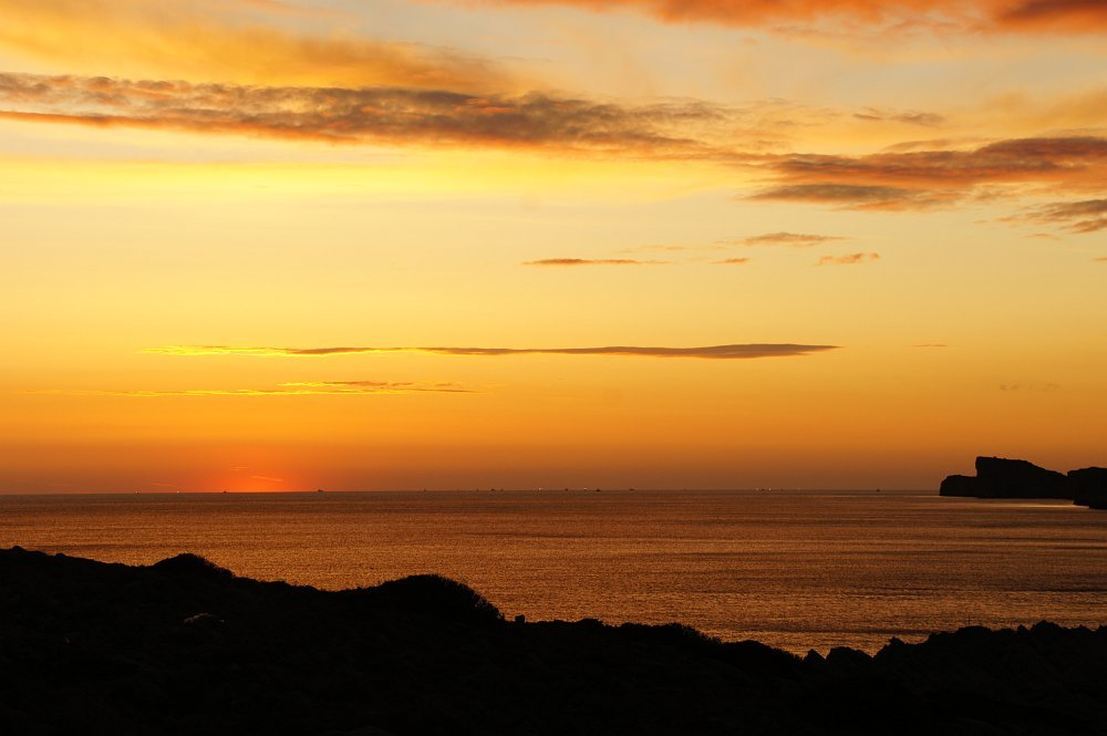 Sunset at Kornati, Municipality of Murter, Croatia.